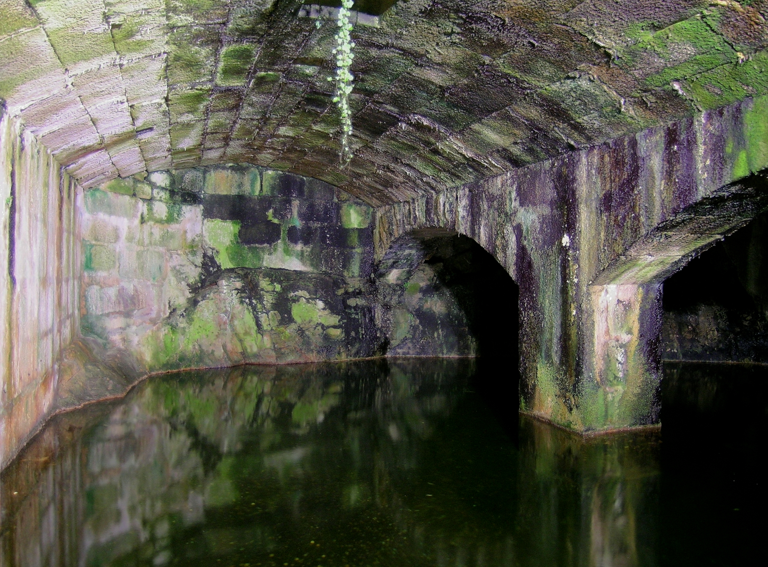 cistern inside the San Anton Castle in A Coruña, Galicia, Spain. I took two pictures of the same subject using different exposure time, then I aligned them using autopano and hugin. I used them to create an HDR image using qtpfsgui and I have tone-mapped it using the Reinhard '02 algorithm with the following settings: key=0.1 phi=1 pre-gamma=0.8 post-gamma=0.8 At the end, I have post-processed it with Gimp